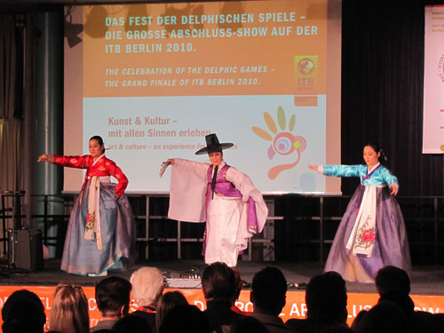 THE CELEBRATION OF THE DELPHIC GAMES – THE GRAND FINALE OF ITB BERLIN 2010 Sound of Korea, Korea: Traditional East-Korean folk songs and dances, performed by outstanding artists.